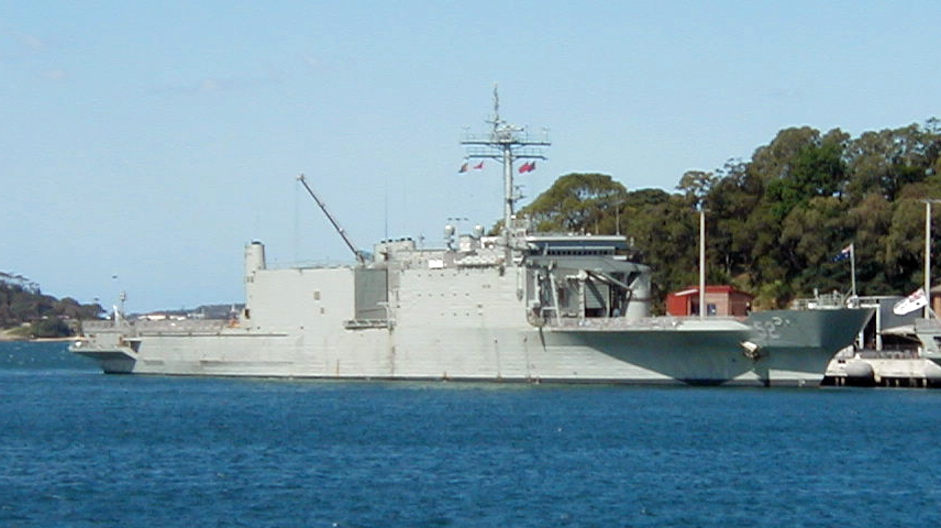 Royal Australian Navy HMAS Manoora Sydney.